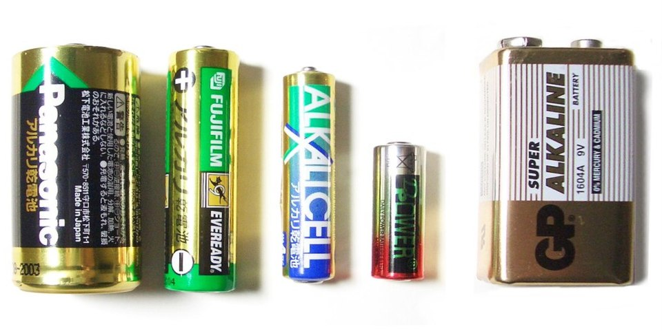 A selection of alkaline batteries in various form factors